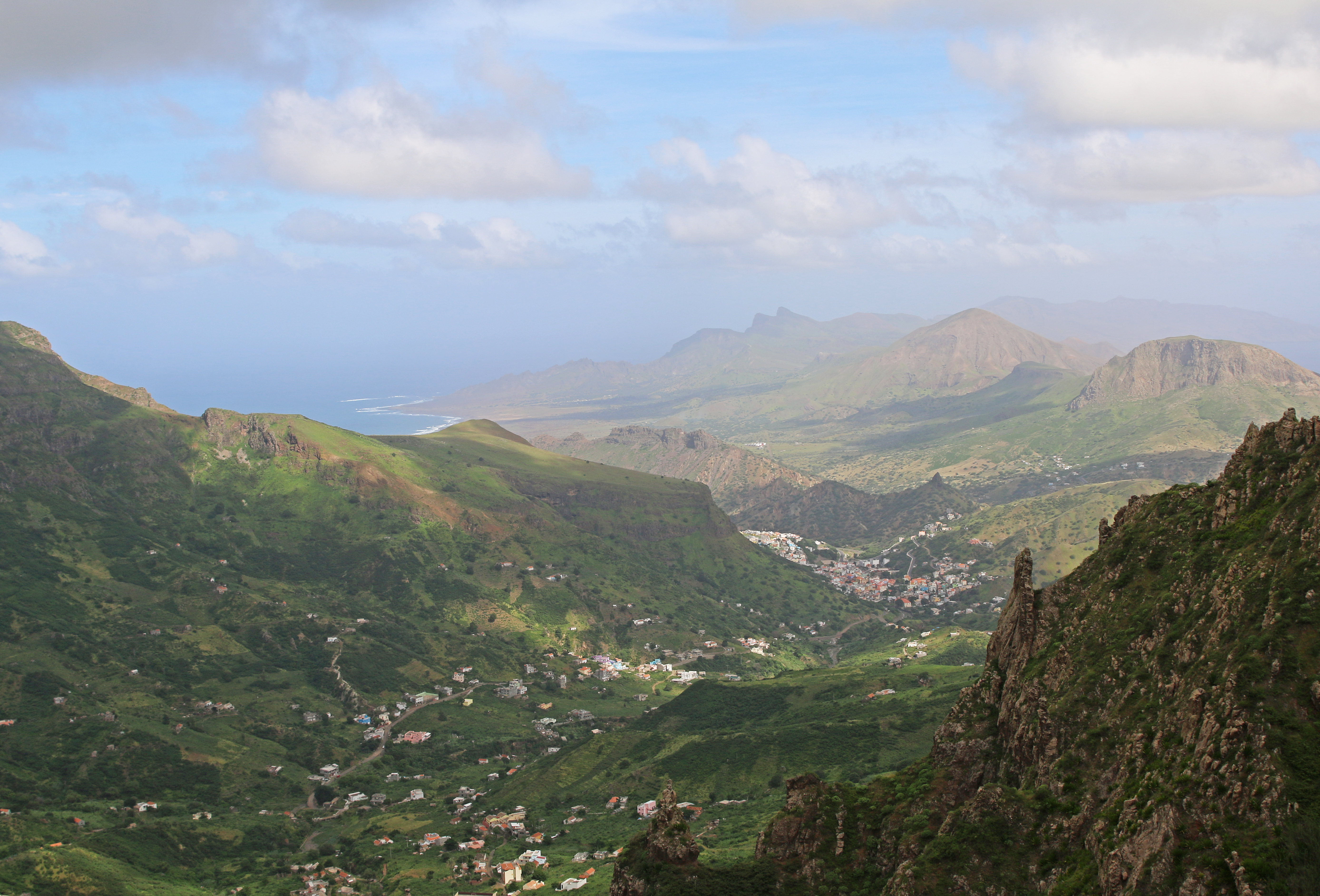 View into the valley of Ribeira Brava, island of São Nicolau (Kap Verde)